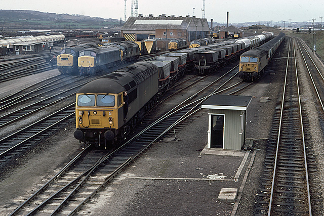 Healey Mills TMD and Yards 56030 gets a train of merry-go-round train on its way from Healey Mills. Behind is the loco depot. Compare this photo with 864329 and see how many changes have happened in less than an hour.